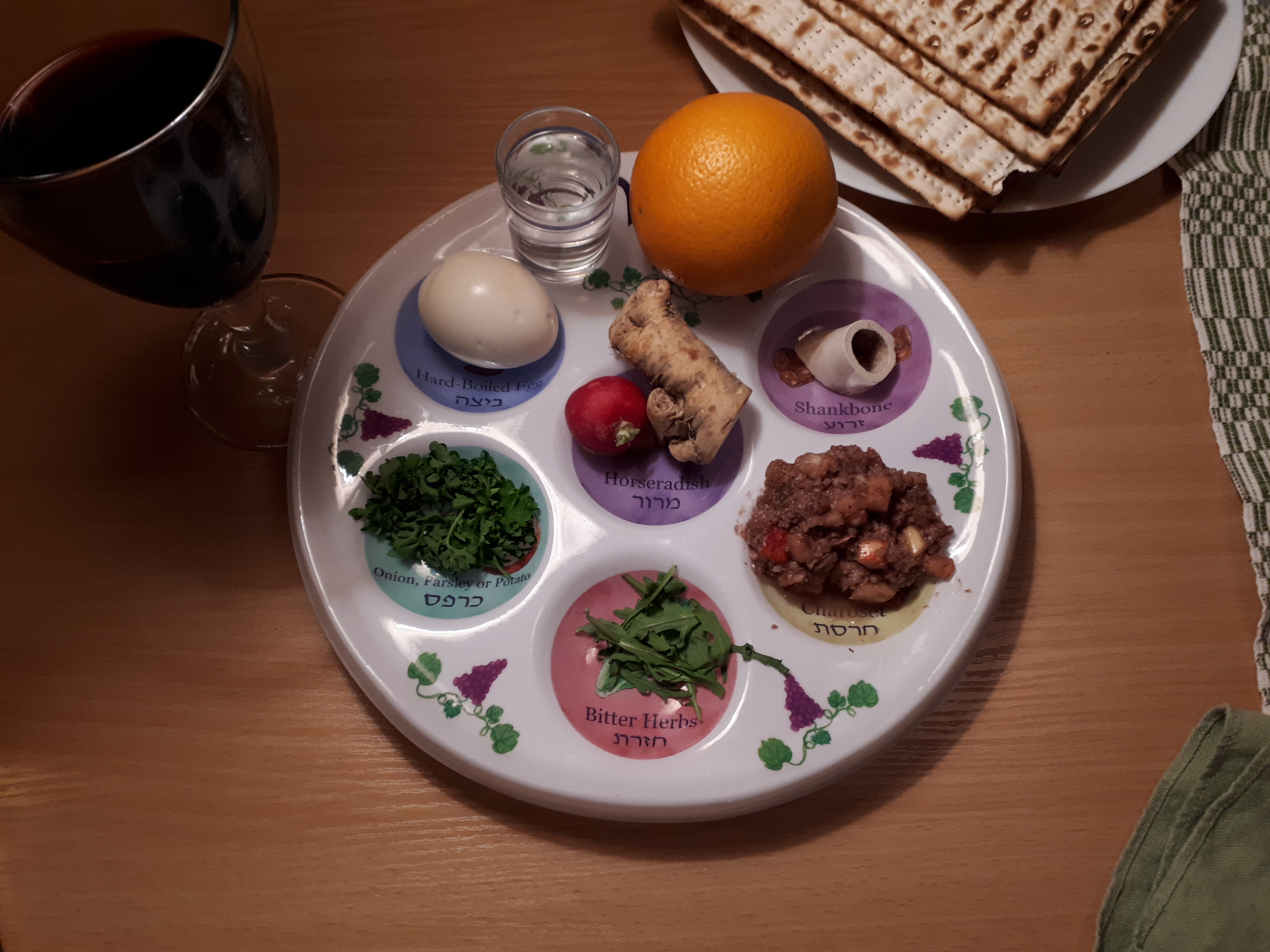 Passover Seder plate with wine and matzot.